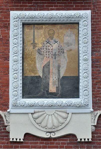 Icon of Saint Nicholas of Mozhaysk on the Nikolsky Tower of Moscow Kremlin